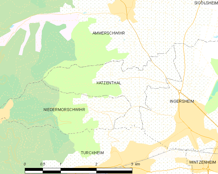 Map of French municipality